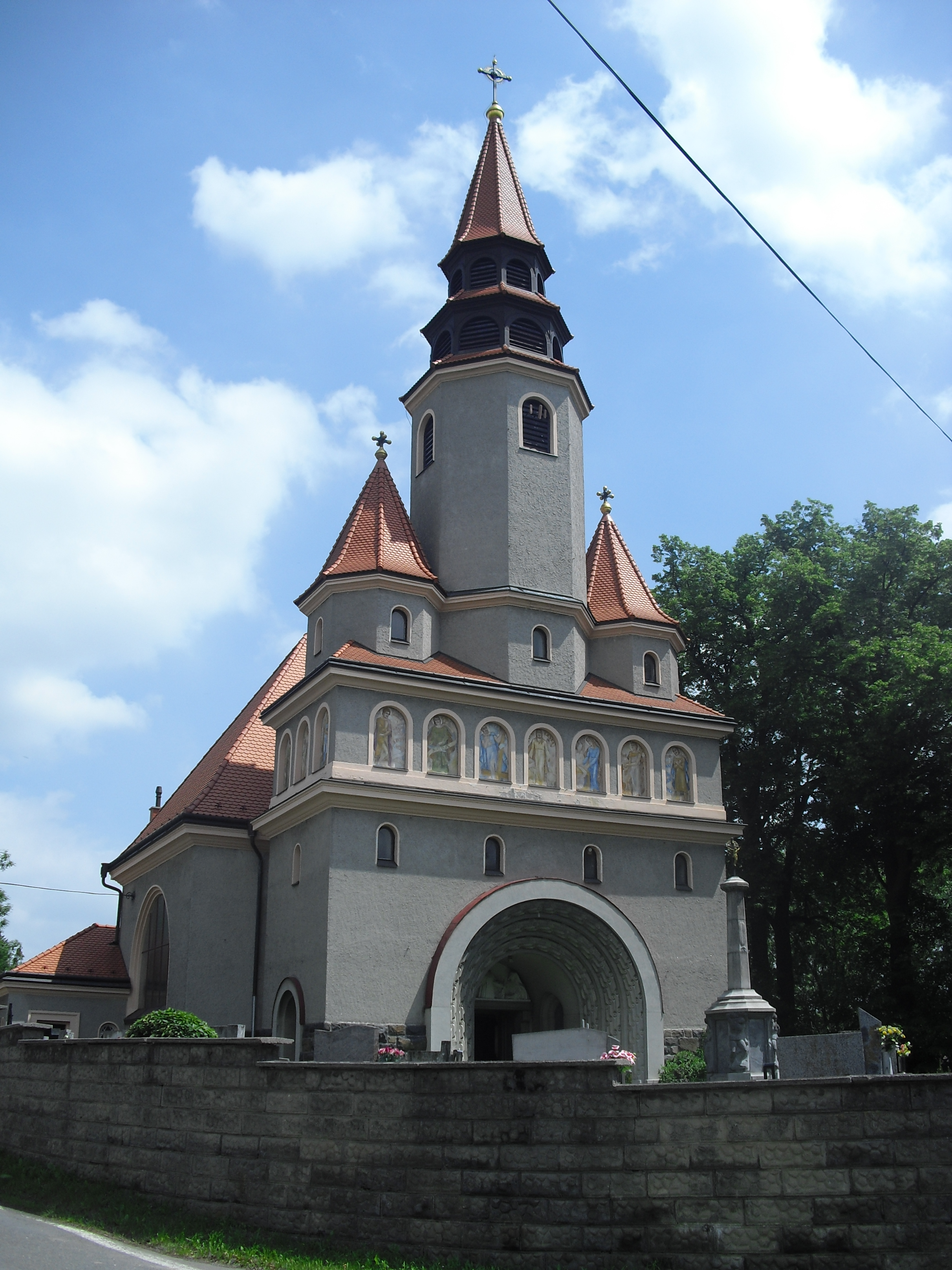 Odry, Nový Jičín District, Czech Republic, part Tošovice. St. Martin's Church, designed by Leopold Bauer from 1914-1916.